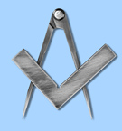 Square and Compasses - symbol of Freemasonry